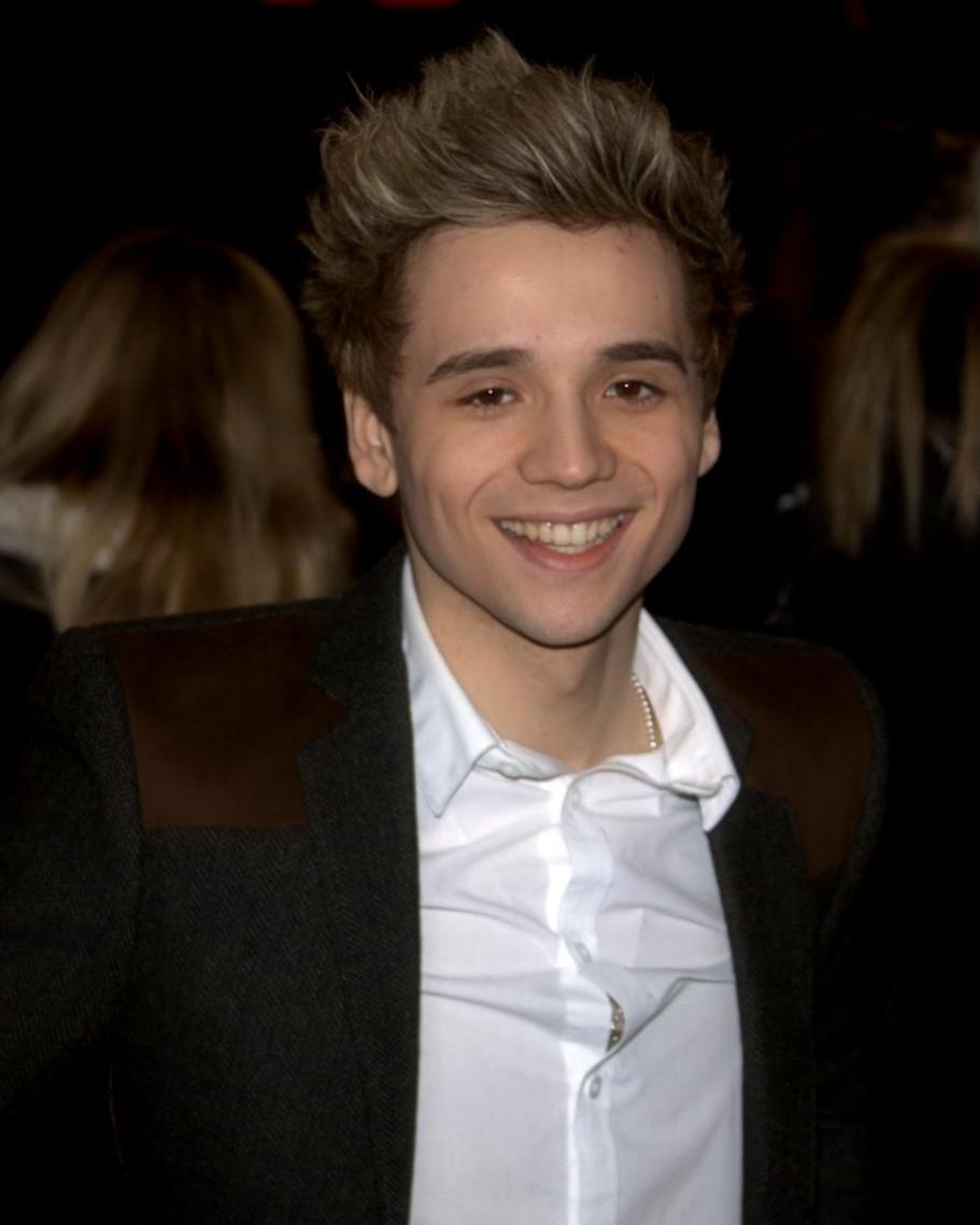 Fox at the premiere of Jack Ryan: Shadow Recruit film . ""